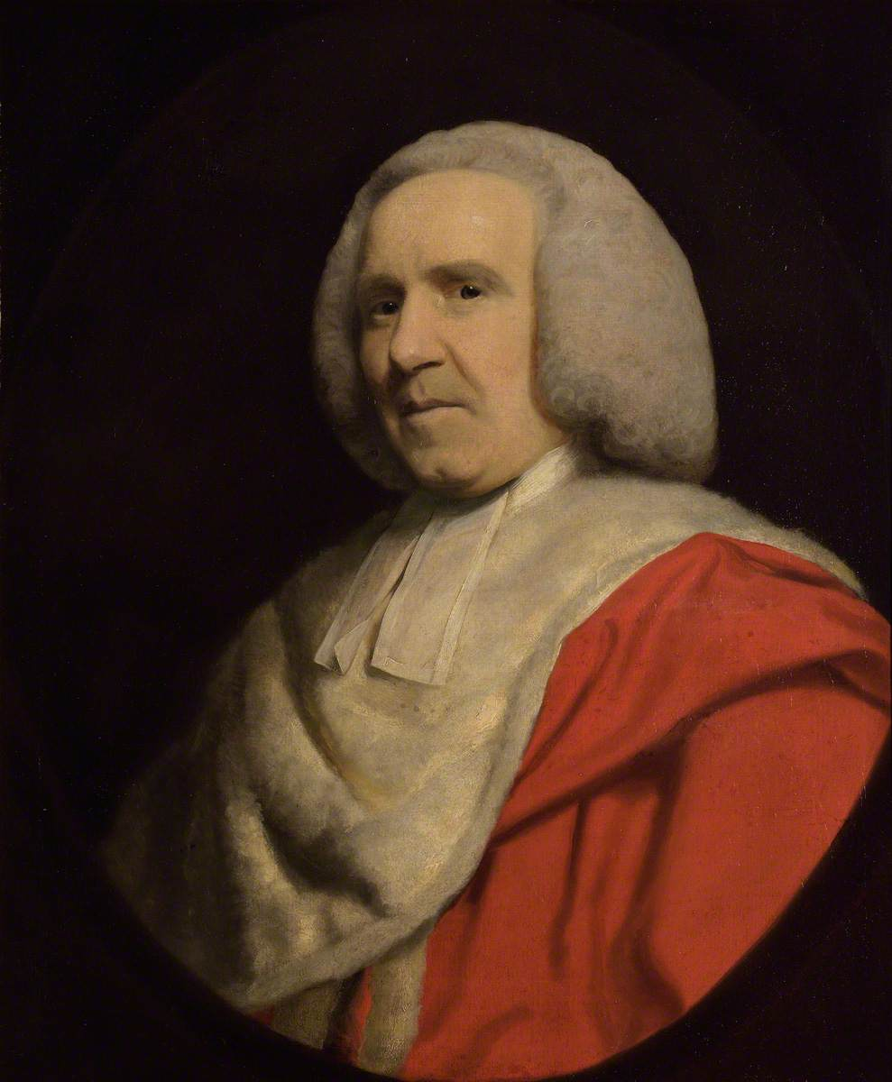 John Smith (1711-1795), Master of Gonville & Caius College, Cambridge